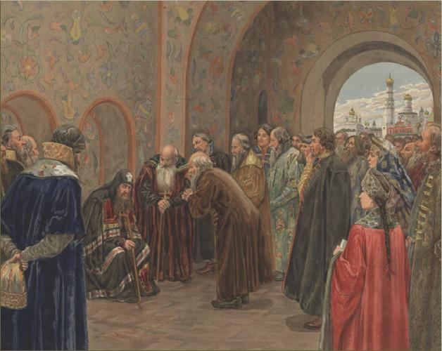 Rupture of patriarch Nikon with tsar Aleksey Mihajlovich